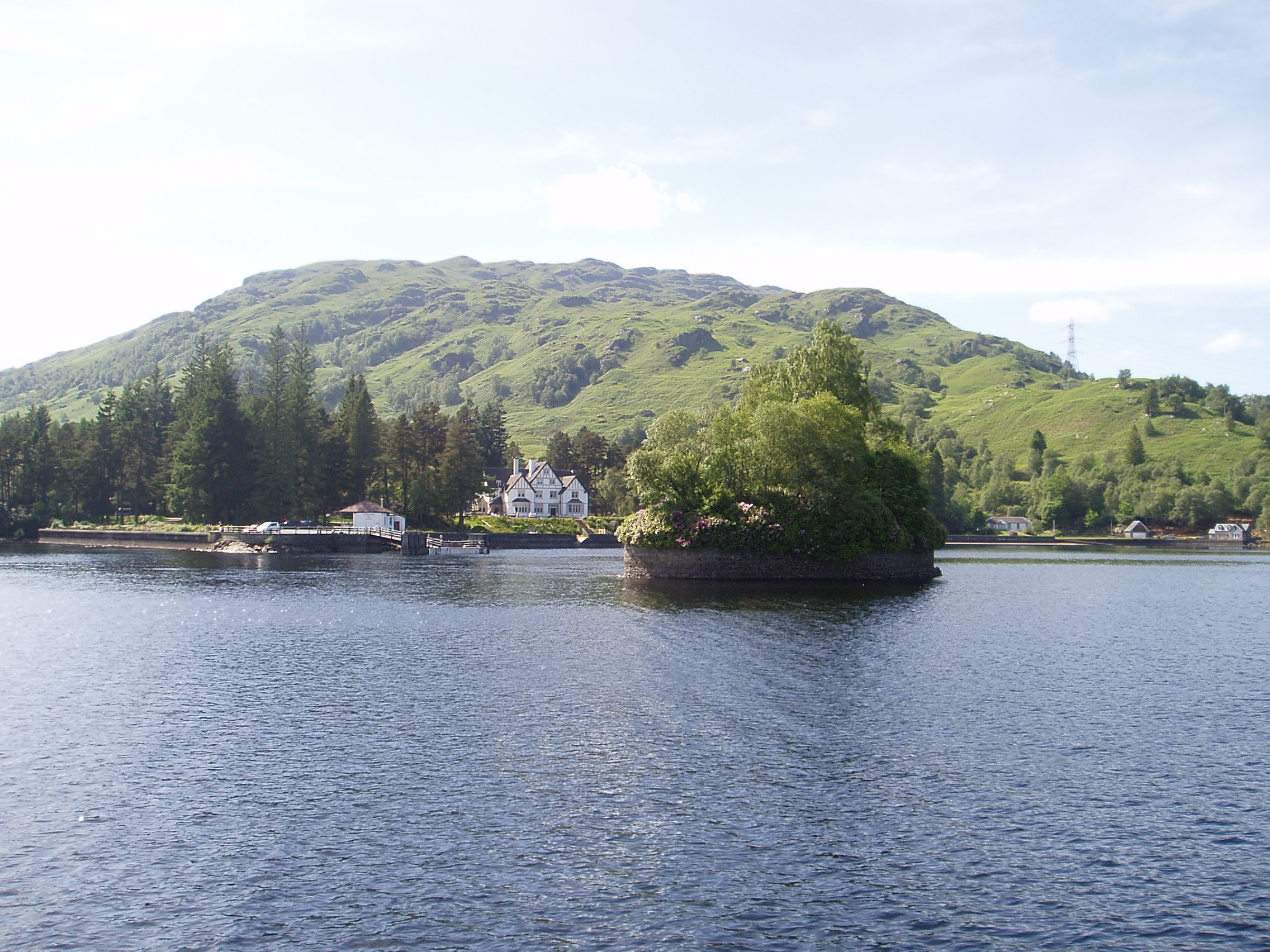 Sròn a' Chlachair / Stronachlachar seen from Loch Katrine with the Garradh in the background and Eilean a' Bhàillidh / Factor's Isle in the foreground.